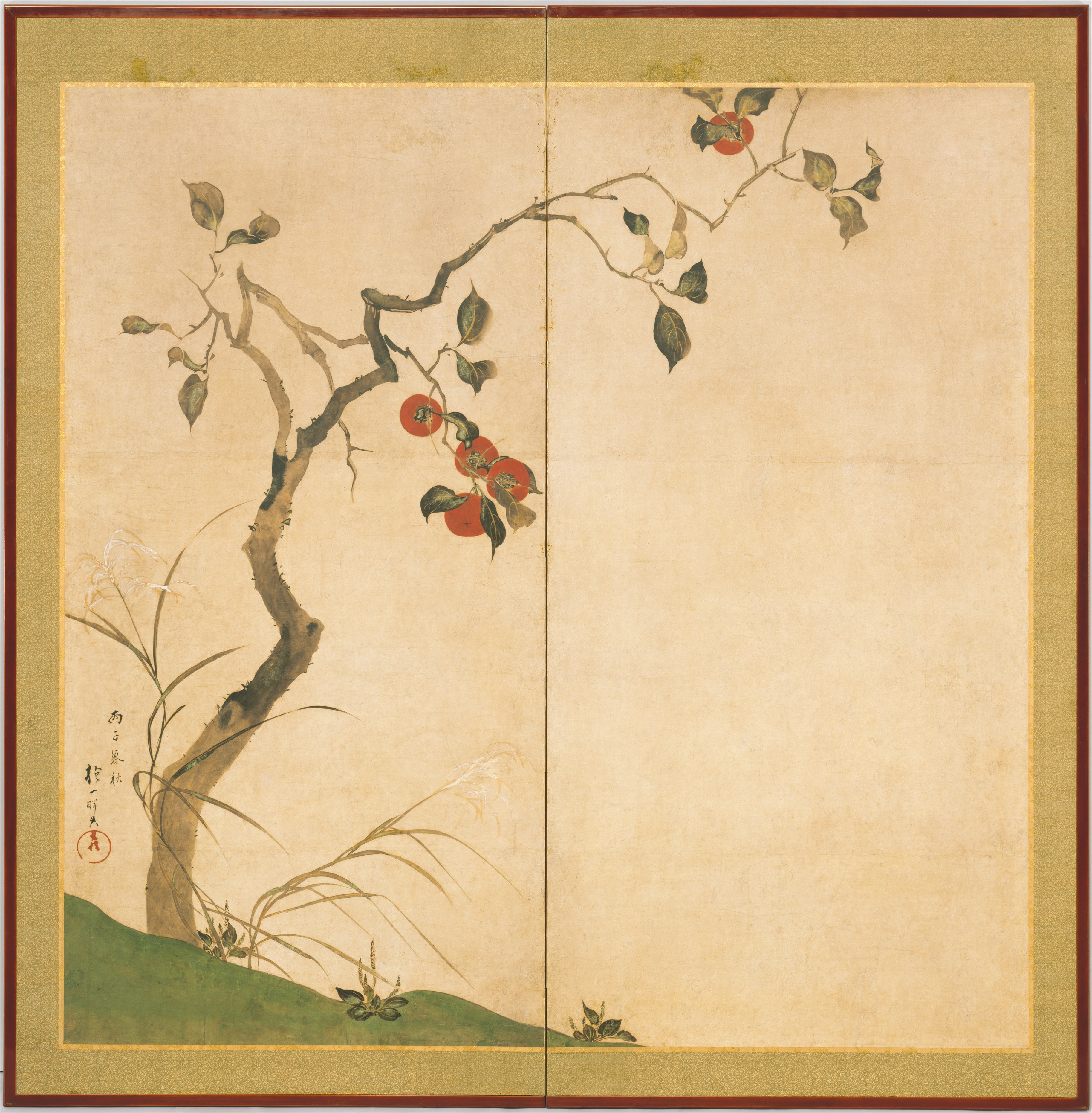 Japan; Folding screen; Screens